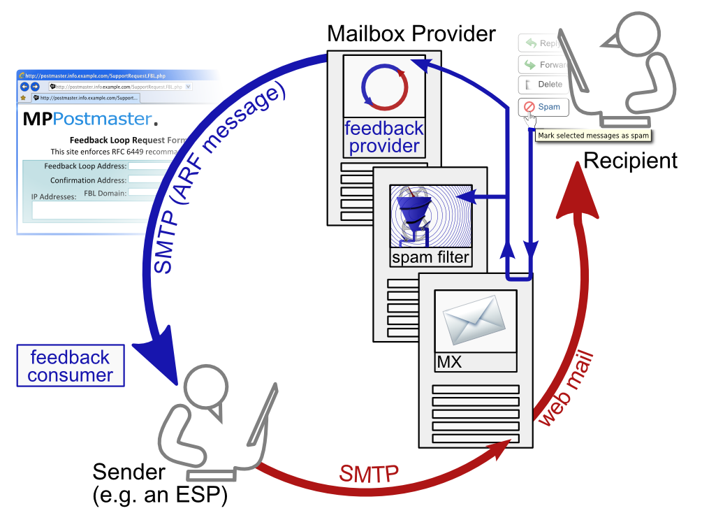 Feedback loop is described by RFC 6449. The diagram displays a Sender and a Recipient, as well as the Mailbox Provider's infrastructure that connects them. In particular, the feedback provider and the feedback consumer are the two endpoints of a feedback loop.